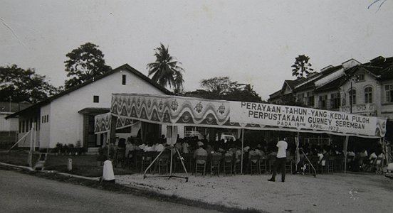 Gurney library